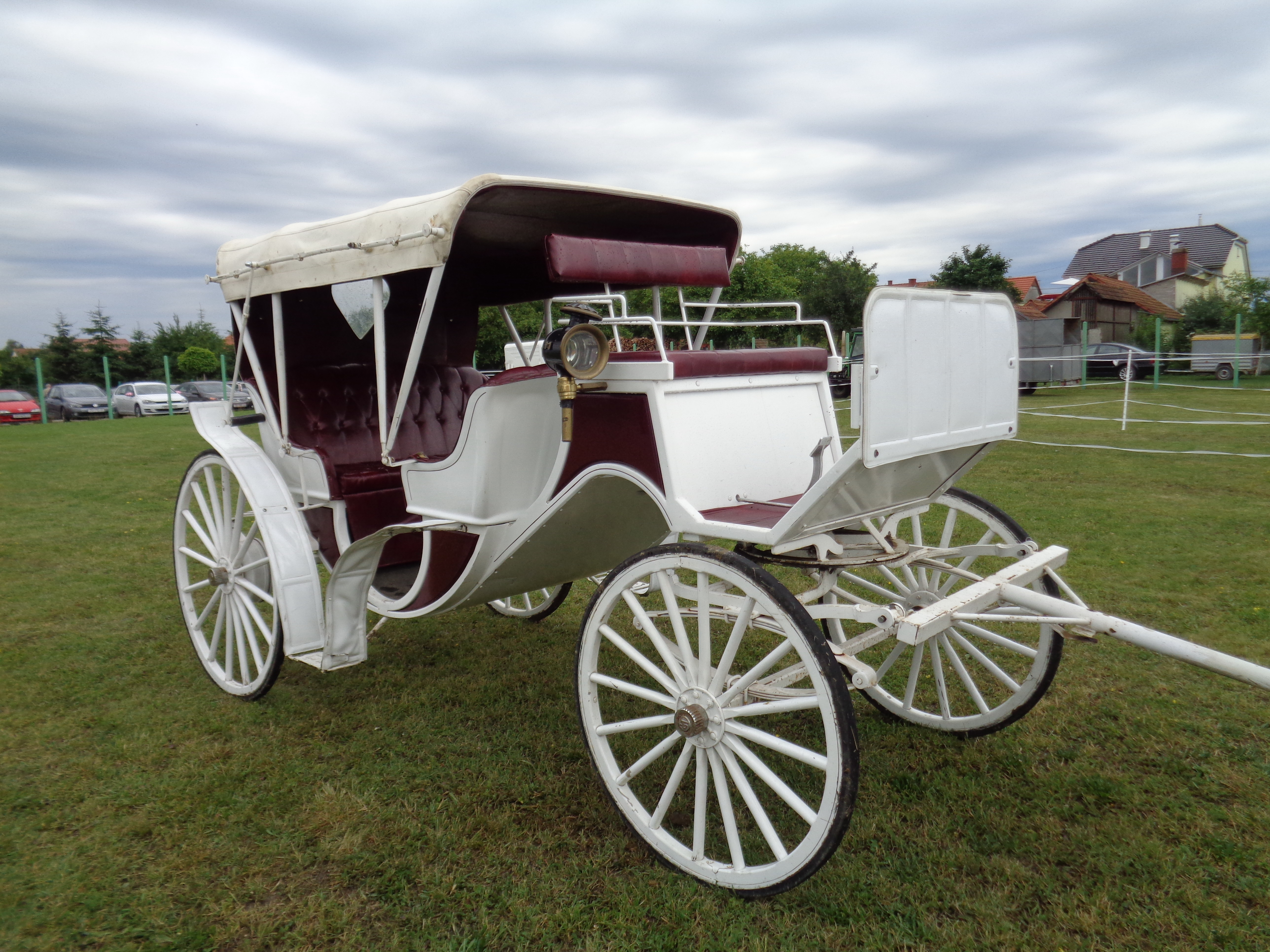 White carriage at 2016 MESAP Trade Fair in Nedelišće, Medjimurje County, Croatia